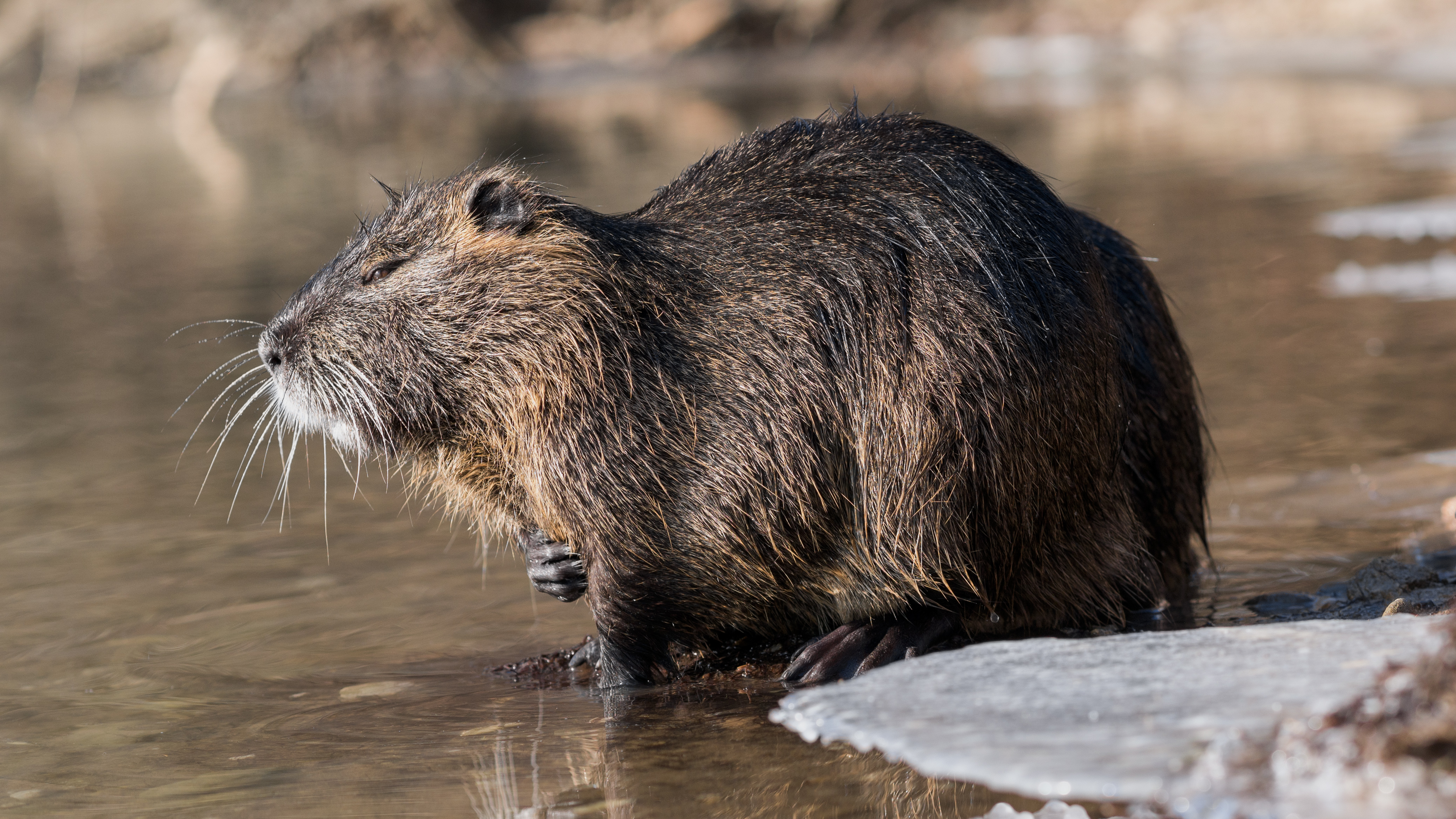 Nutria (Myocastor coypus) In a partially frozen river Ljubljanica, Slovenia.